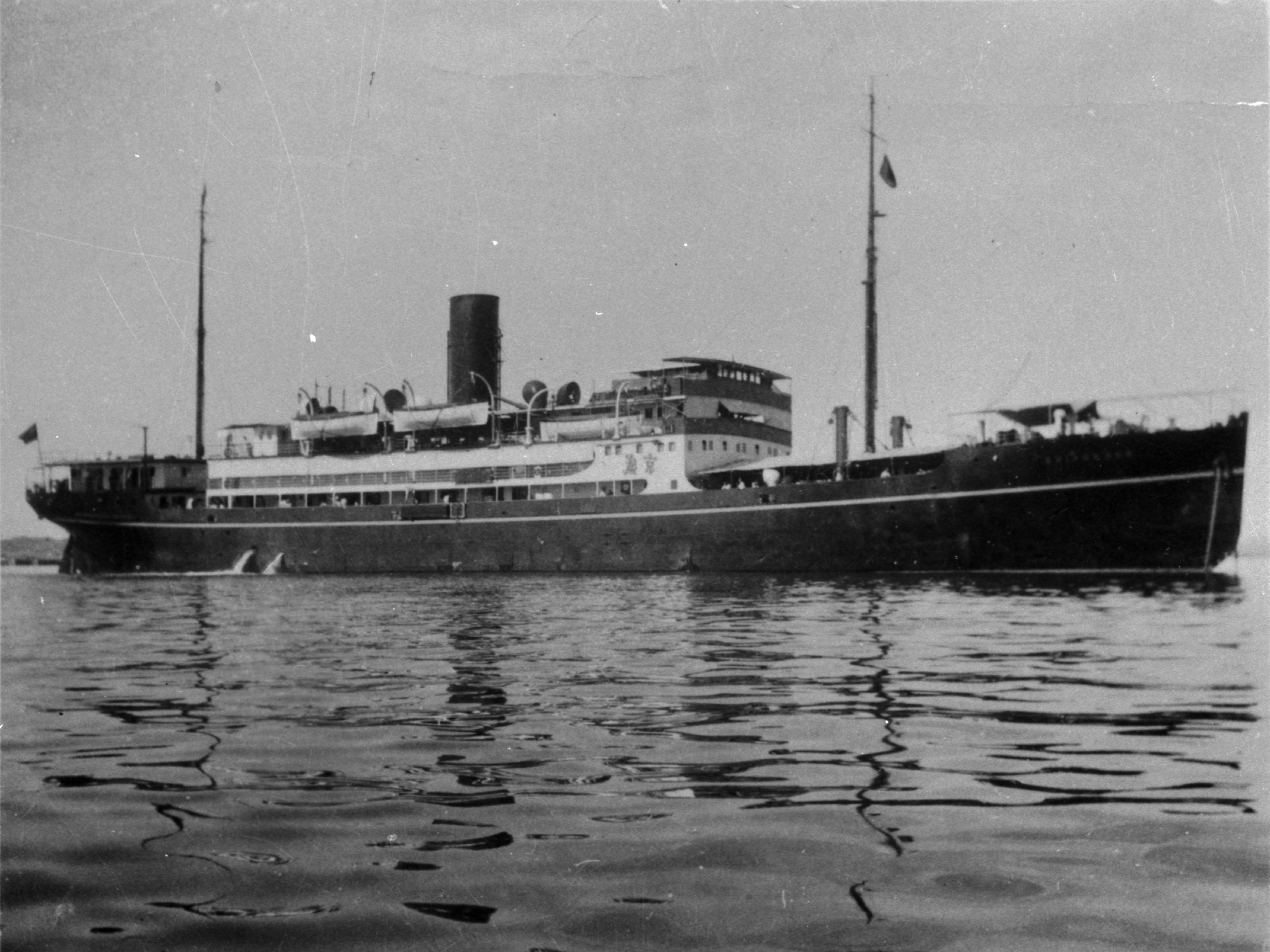 The passenger and cargo liner SS Shuntien, built in 1934 for the China Navigation Co and sunk in 1941 by U-559. Note her icebreaker bow.